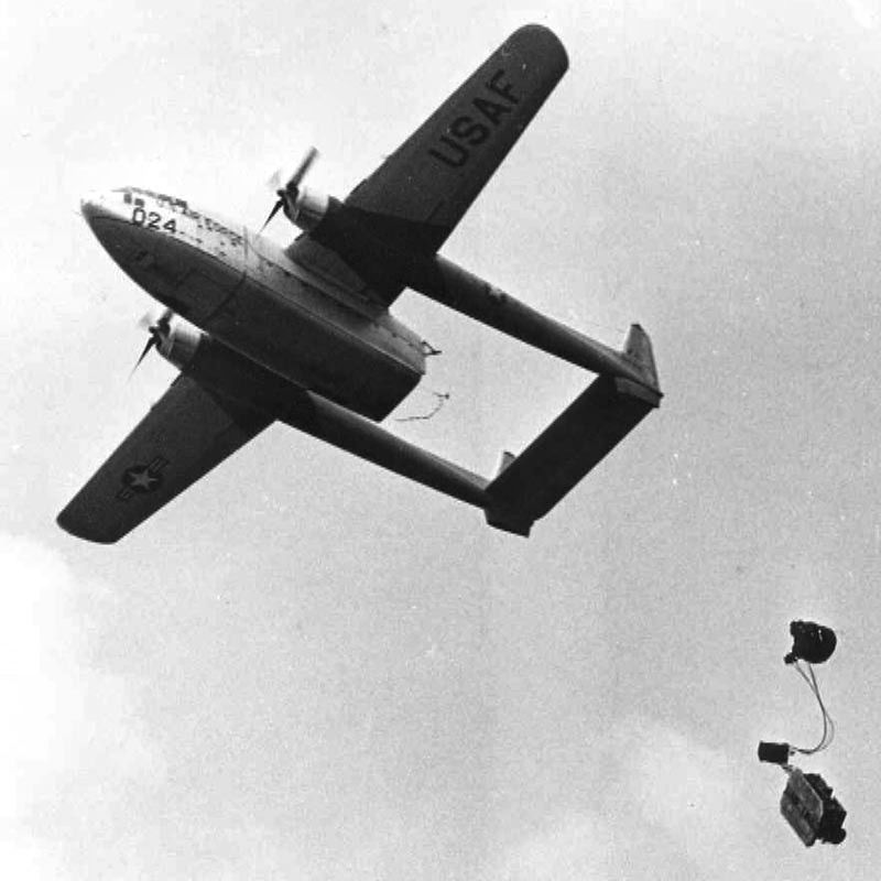 Jeep being dropped by the 434th Troop Carrier Wing, Bakalar AFB, Indiana. The main parachute has not yet opened.